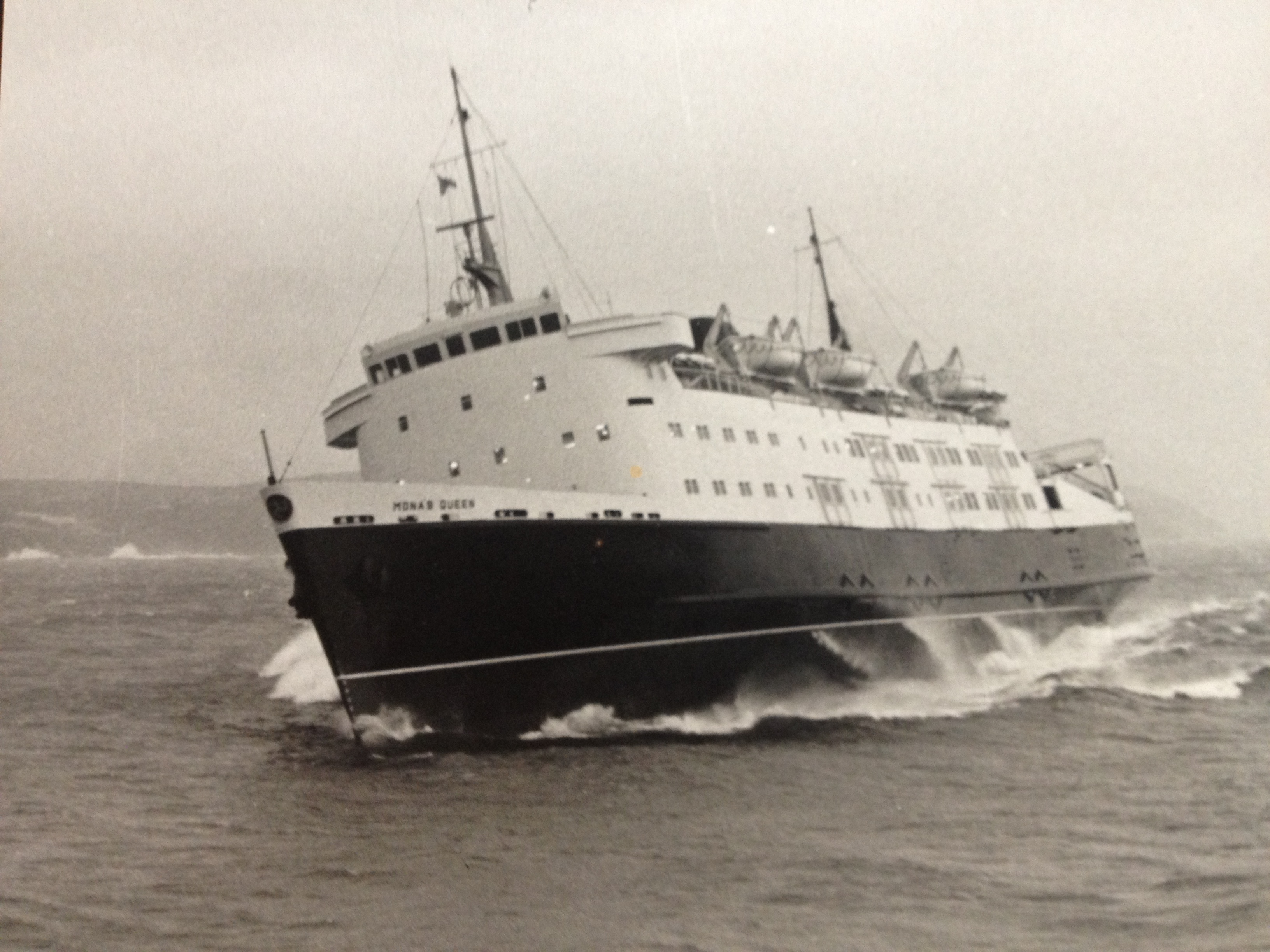 Mona's Queen (V) encounters rough swell on the approach to Douglas. Prior to the construction of the new Princess Alexander Pier and Breakwater at Douglas, approaches to the port could be somewhat challenging during period of strong south-westerly winds.